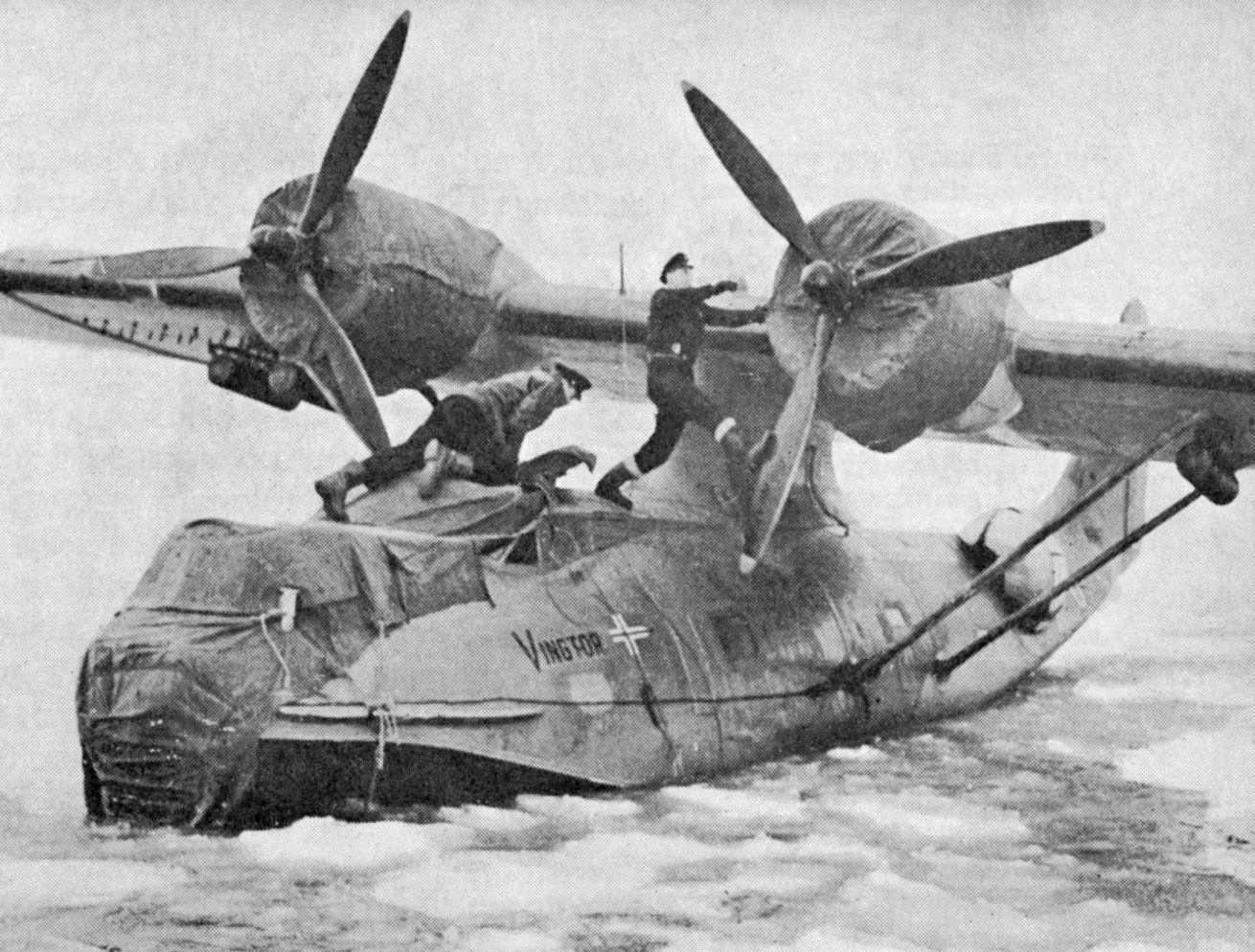 Vingtor, a Consolidated Catalina I (PBY-5). RAF serial W8424, (came from RAF 413 Squadron, where it had been marked QL-R,) with the Norwegian Catalina Unit (later to become 333 (N) Squadron)